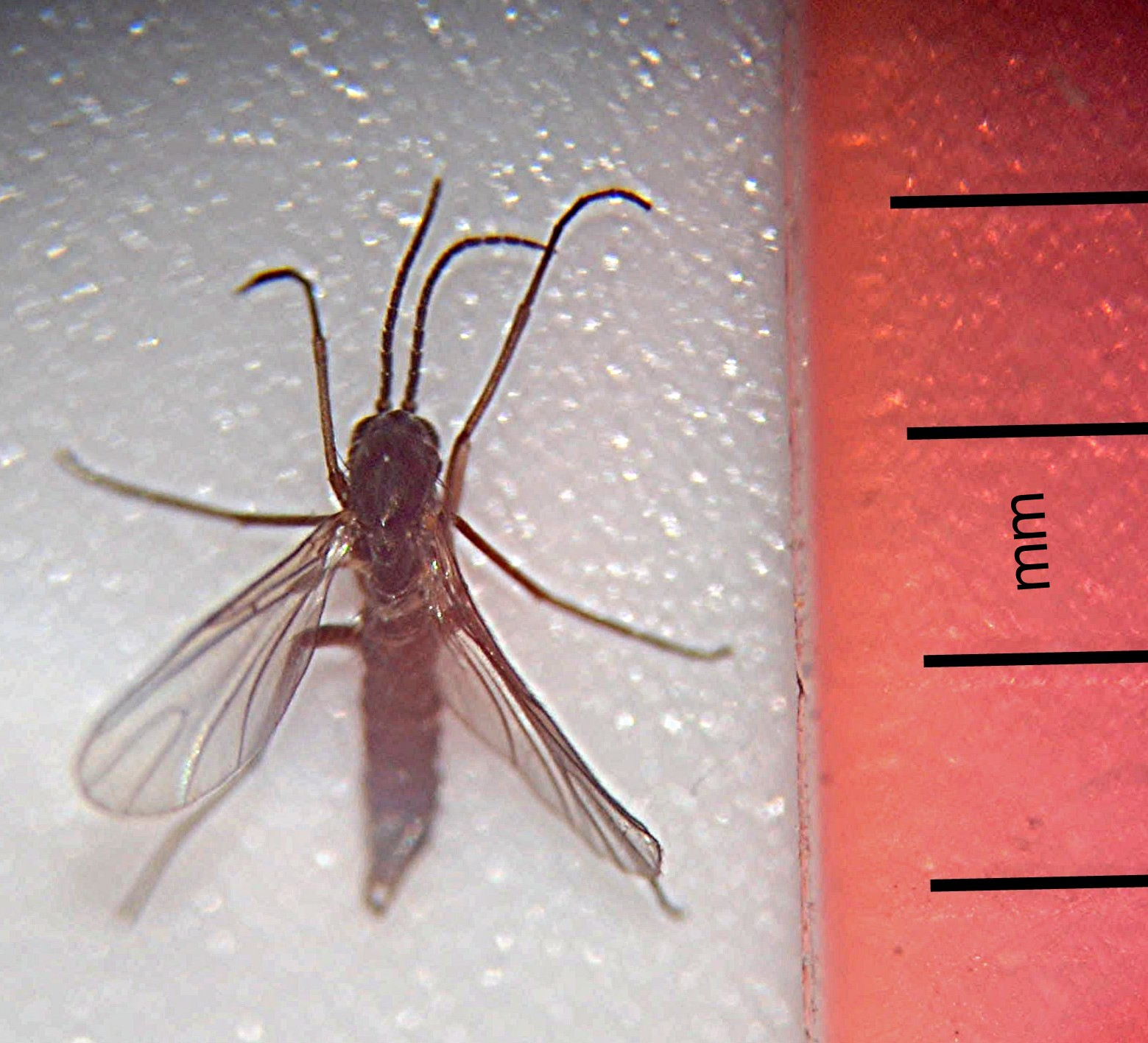 Dark-winged fungus gnat